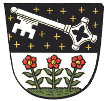 Coat of arms of Wiesoppenheim (Worms) till 1957